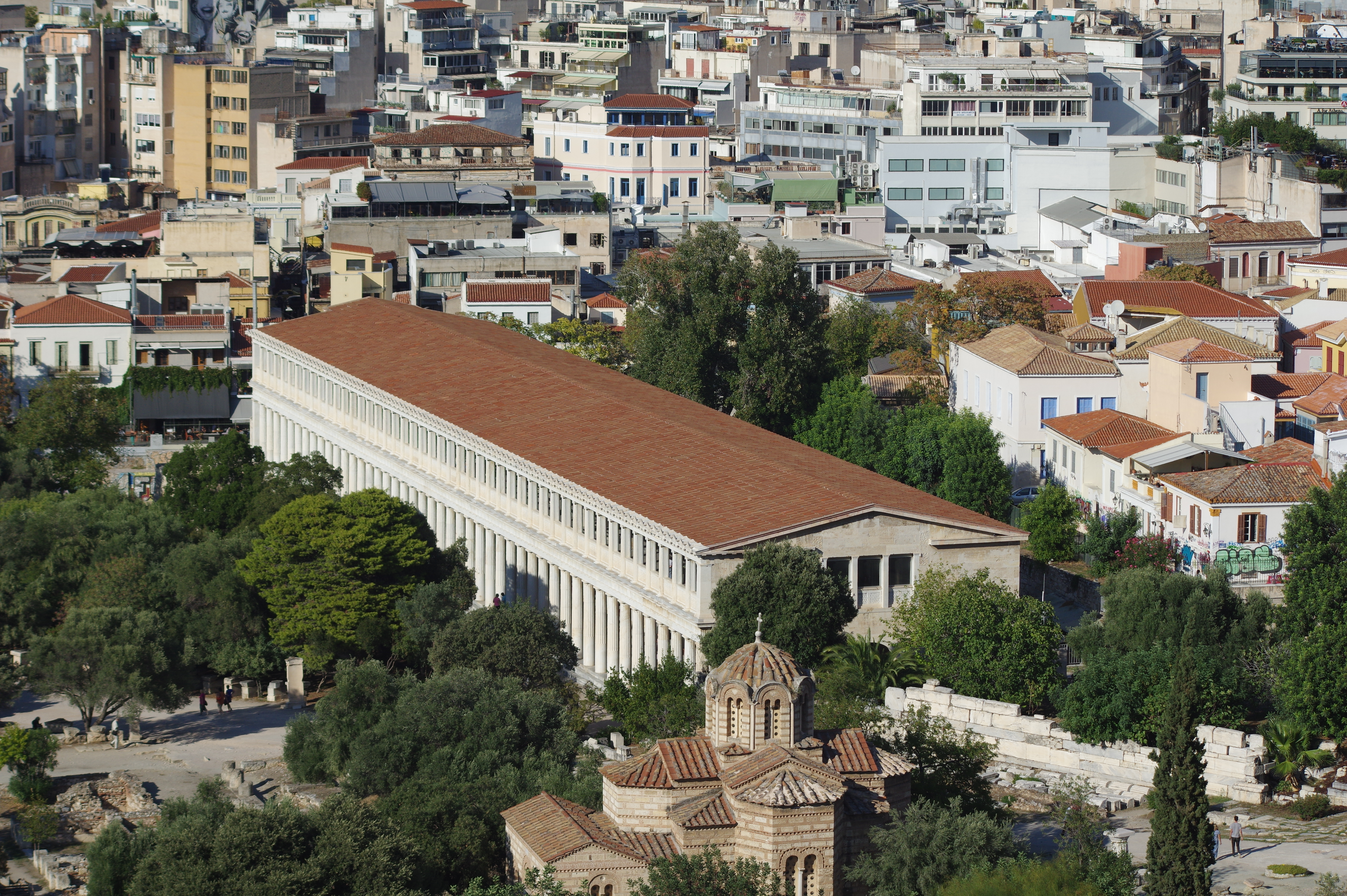 Greece, Athen, Stoa of Attalus seen from the Areopagus